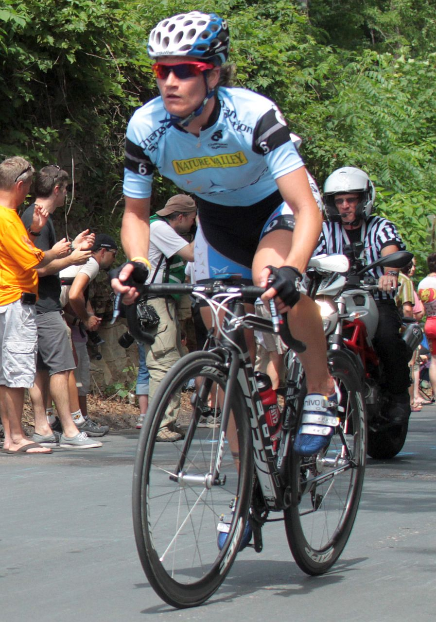 32 Theresa Cliff-Ryan